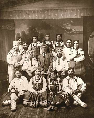 Mitrofan Yefimovich Pyatnitsky (Russian: Митрофан Ефимович Пятницкий) was a Russian and Soviet musician, gatherer of Russian folk songs.